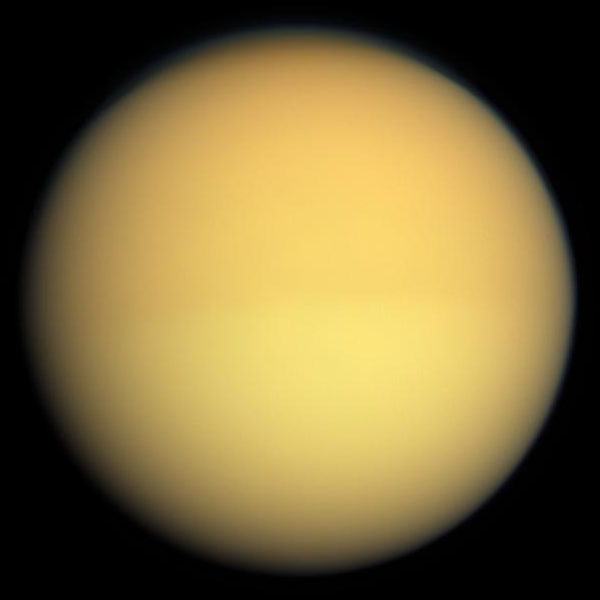 Seasonal changes in the atmosphere of Saturn's largest moon are captured in this natural-colour image which shows Titan with a slightly darker top half and a slightly lighter bottom half. Titan's atmosphere has a seasonal hemispheric dichotomy, and this image was taken shortly after Saturn's August 2009 equinox. Images taken using red, green and blue spectral filters were combined to create this natural-colour view. Scientists have found that the winter hemisphere typically appears to have more high-altitude haze, making it darker at shorter wavelengths (ultraviolet through blue) and brighter at infra-red wavelengths. The switch between dark and bright occurred over the course of a year or two around the last equinox. Scientists are studying the mechanism responsible for this change, and will monitor the dark-light difference as it flip-flops now that the 2009 equinox has signalled the coming of spring and then summer in the northern hemisphere. Although this hemispheric boundary appears to run directly east-west near the equator, its position is not level with latitude and is actually offset from the equator by about 10 degrees of latitude. This view looks toward the Saturn-facing side of Titan (5150 kilometres across). North on Titan is up. The images were obtained with the Cassini spacecraft wide-angle camera at a distance of approximately 174,000 kilometres from Titan. Image scale is 10 kilometres per pixel.